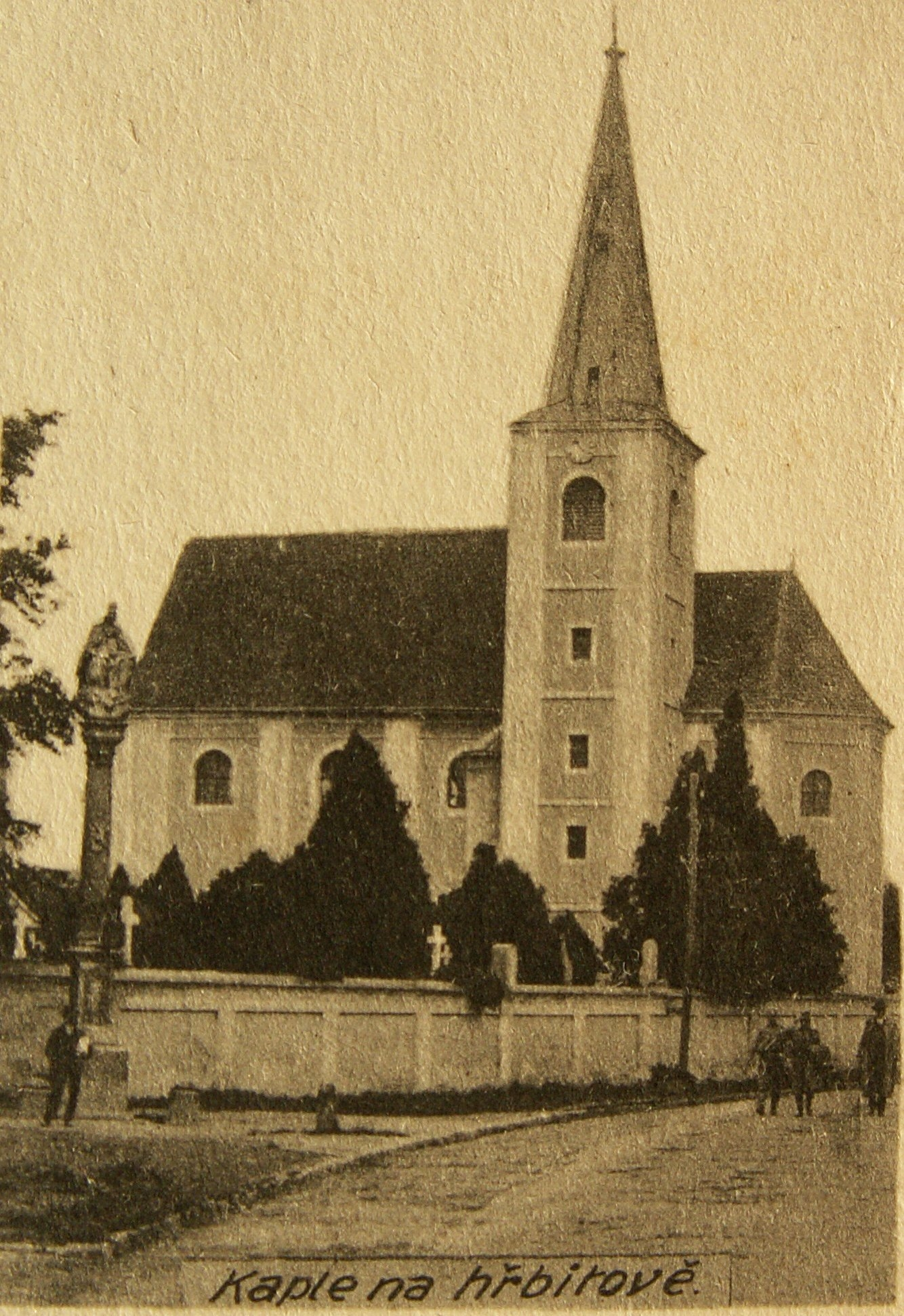 Church of St. Philip and James in Litovel with cemetery.